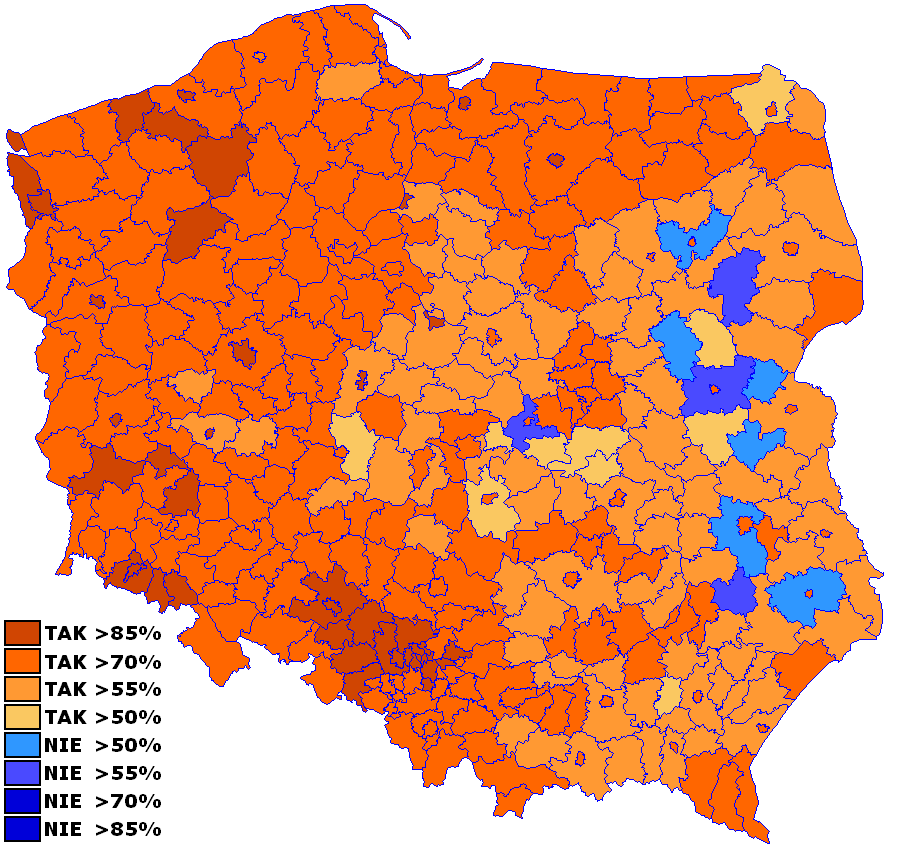 Polish European Union membership referendum, 2003 results by counties